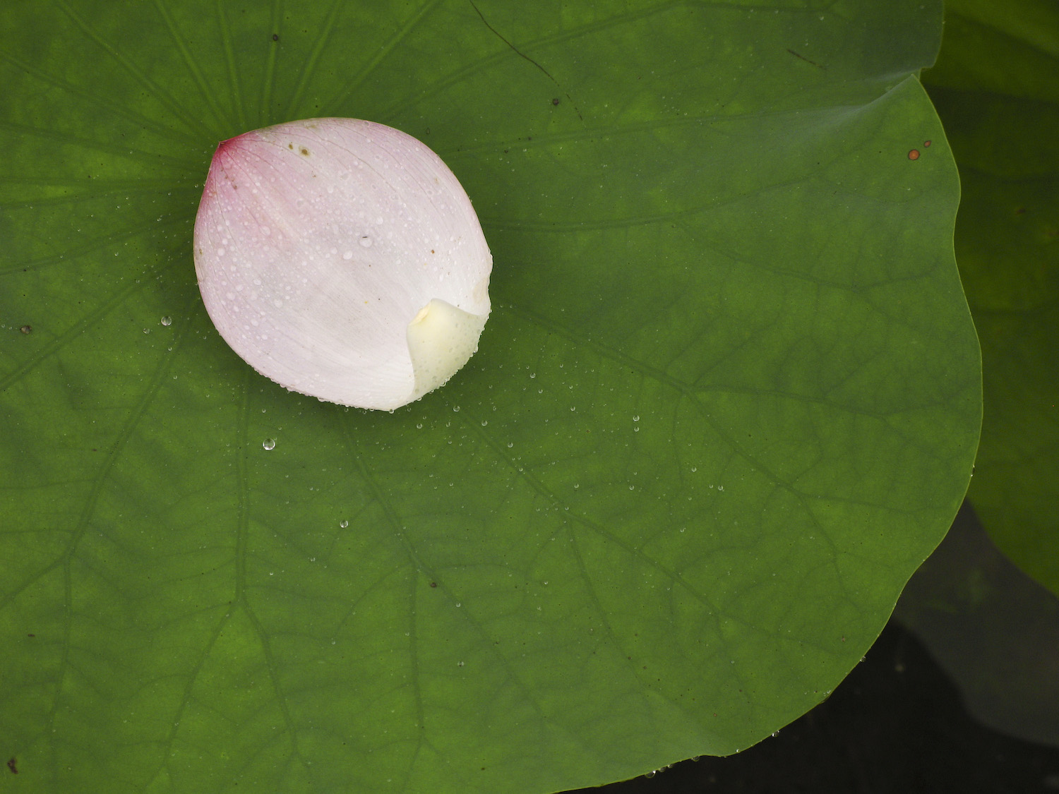 Leaf and petal of lotus believed to be Nelumbo nucifera